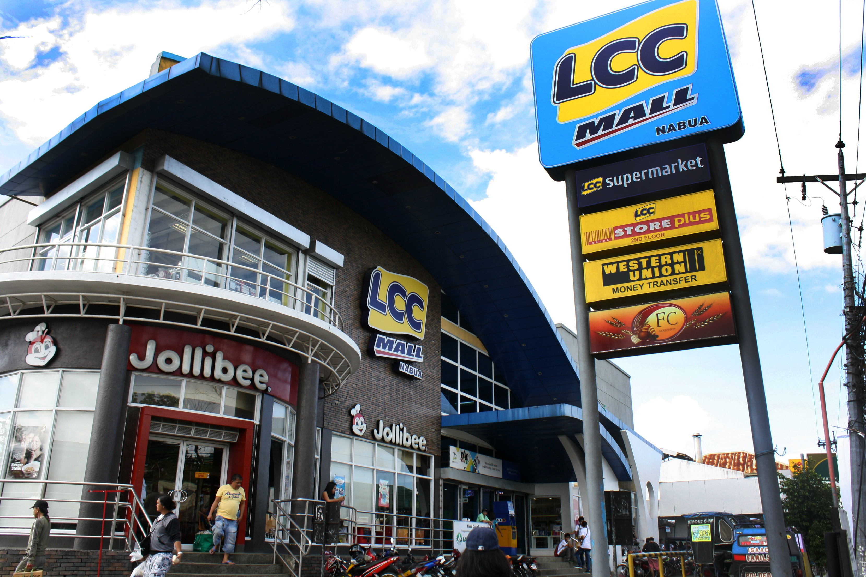 LCC Mall along the Pan-Philippine Highway in Nabua, Camarines Sur.